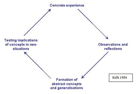 Steph's Kol Model